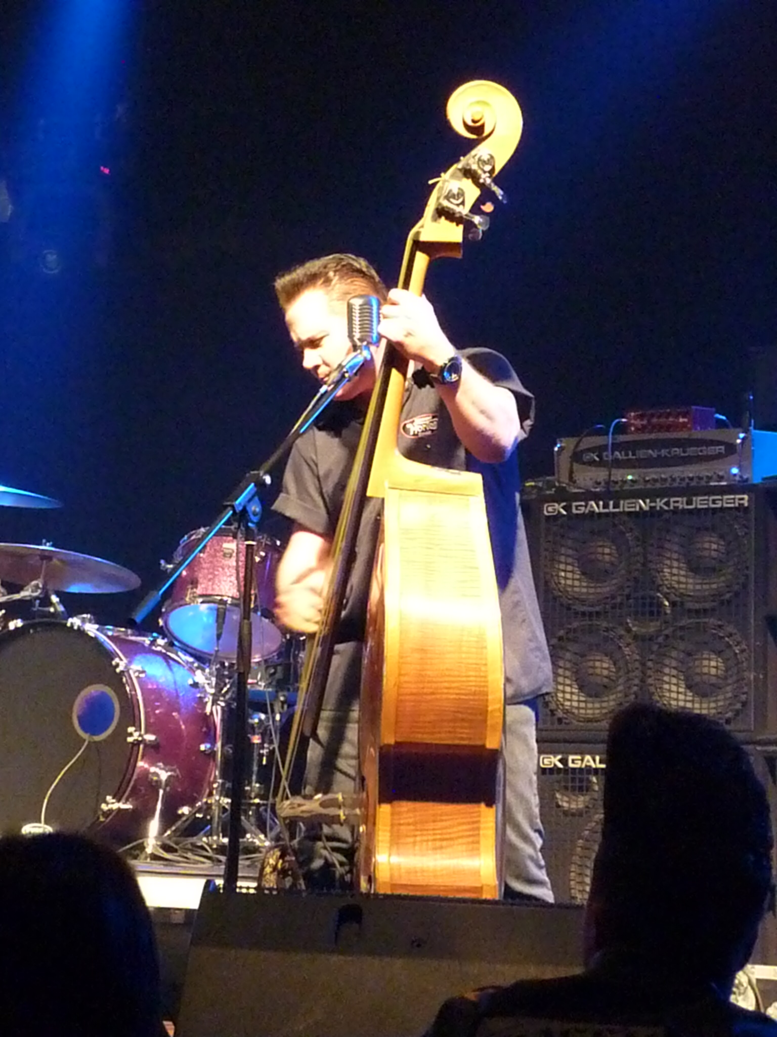 Jimbo Wallace (Reverend Horton Heat) live at the Essigfabrik, Cologne